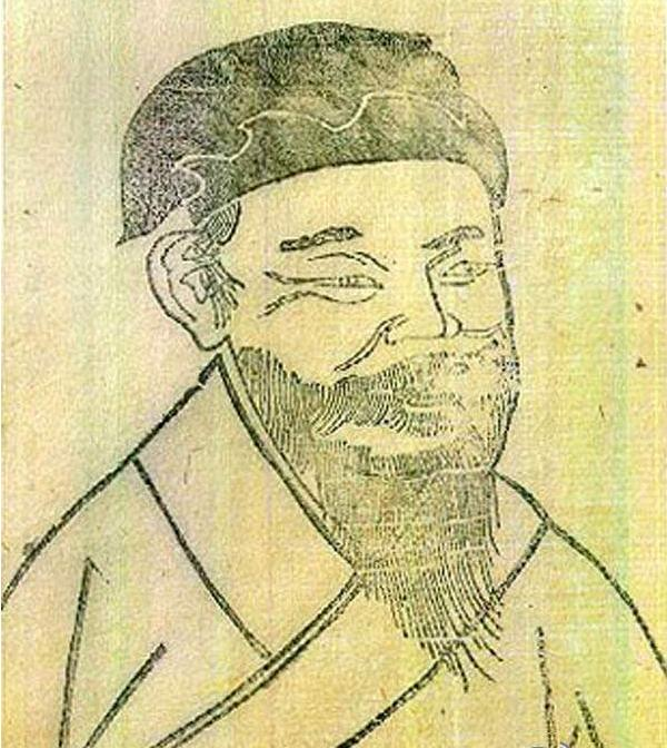 Goryeo's Politicians Yi Jae-hyun's 79 years old